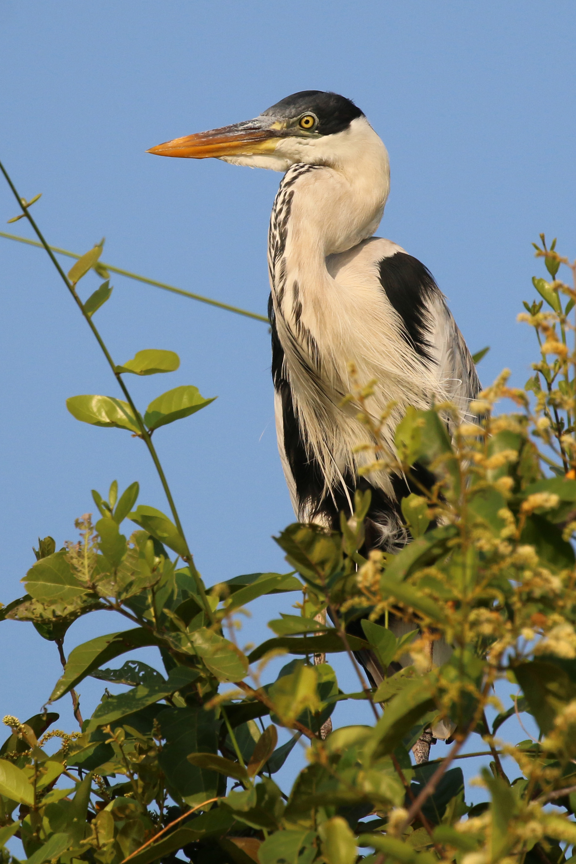 Cocoi heron (Ardea cocoi), Pantanal, Brazil